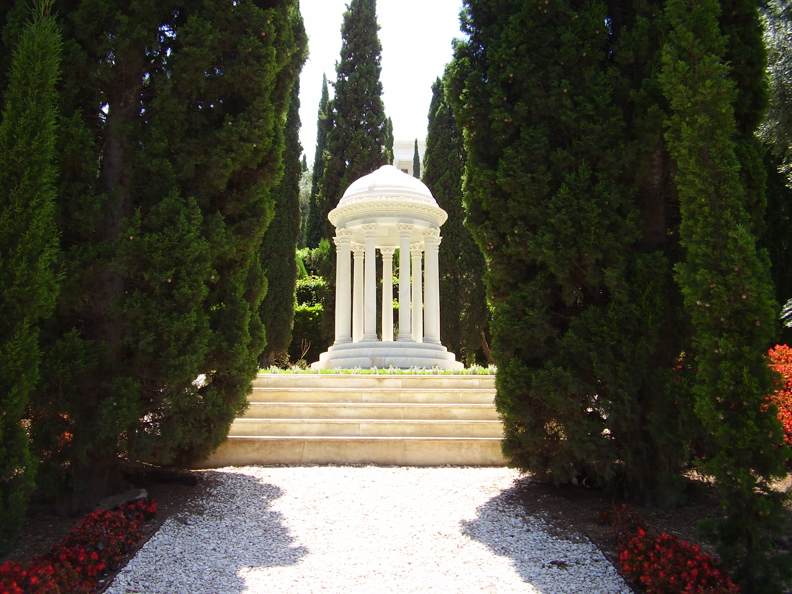 Grave of Bahíyyih Khánum, "The Greatest Holy Leaf", sister of 'Abdu'l-Bahá, at the monument gardens of the Bahá'í World Centre, Haifa, Israel.